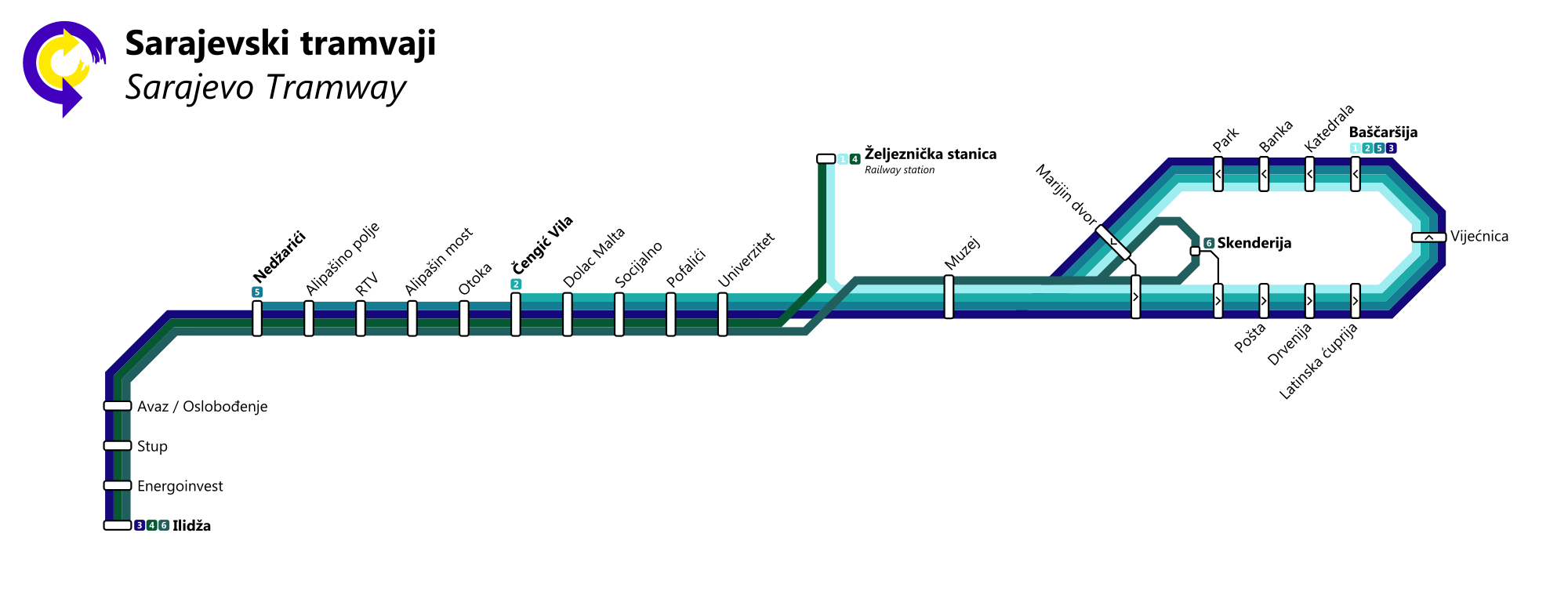 The unofficial Sarajevo tram network map